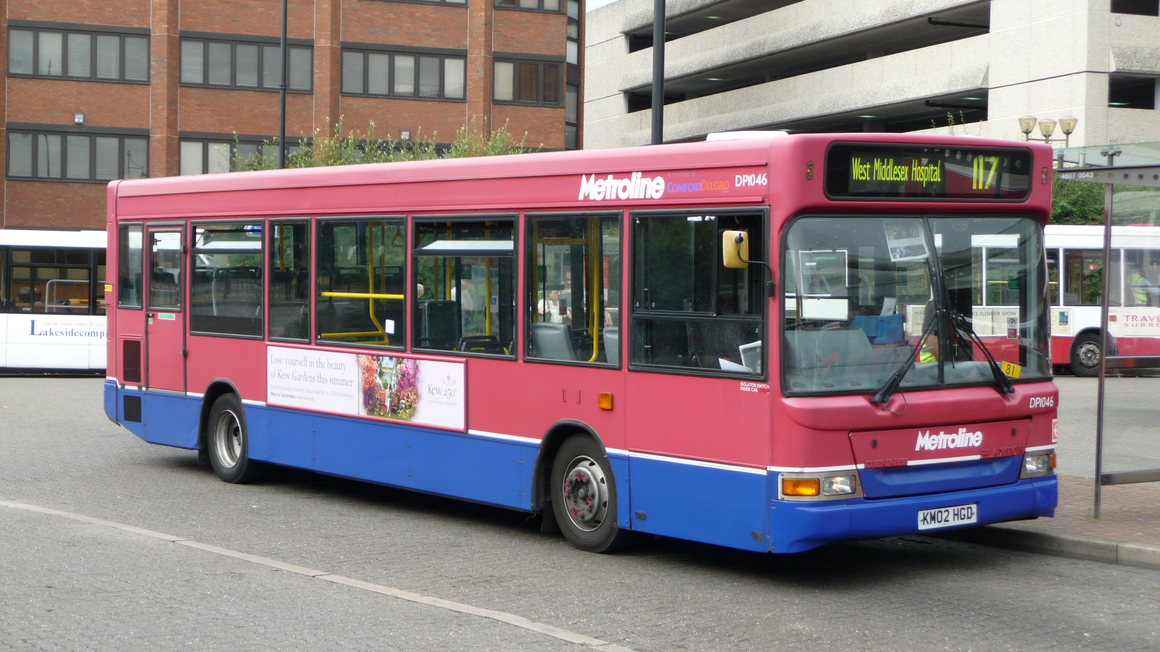 Metroline DP1046 (KM02 HGD), a Dennis Dart SLF/Plaxton Pointer 2, in Staines bus station, Surrey, on Transport for London contracted route 117.